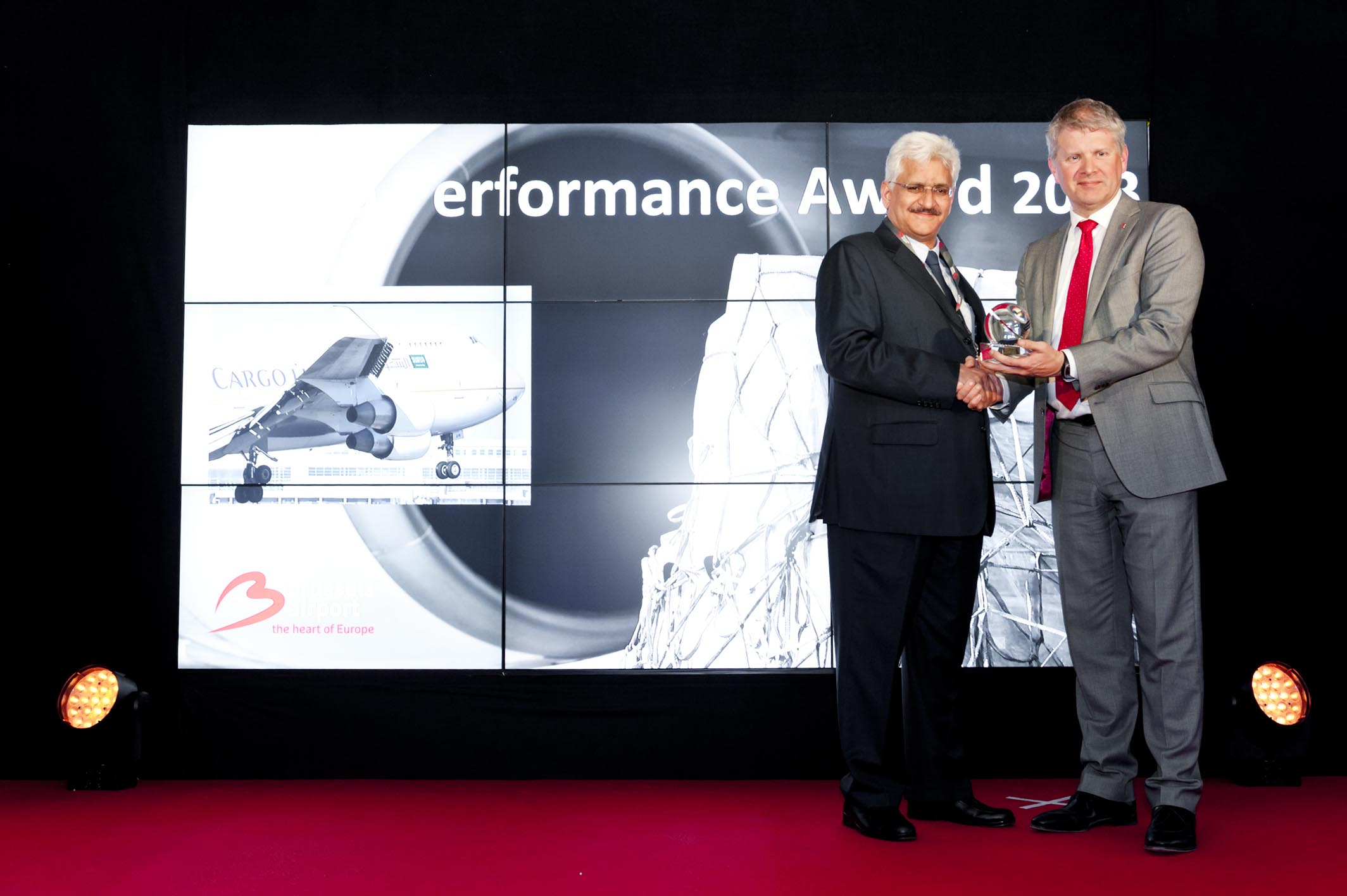 The winner of the Performance Award Cargo Airline is Saudi Airlines Cargo. Press release: bit.ly/1oDFS23